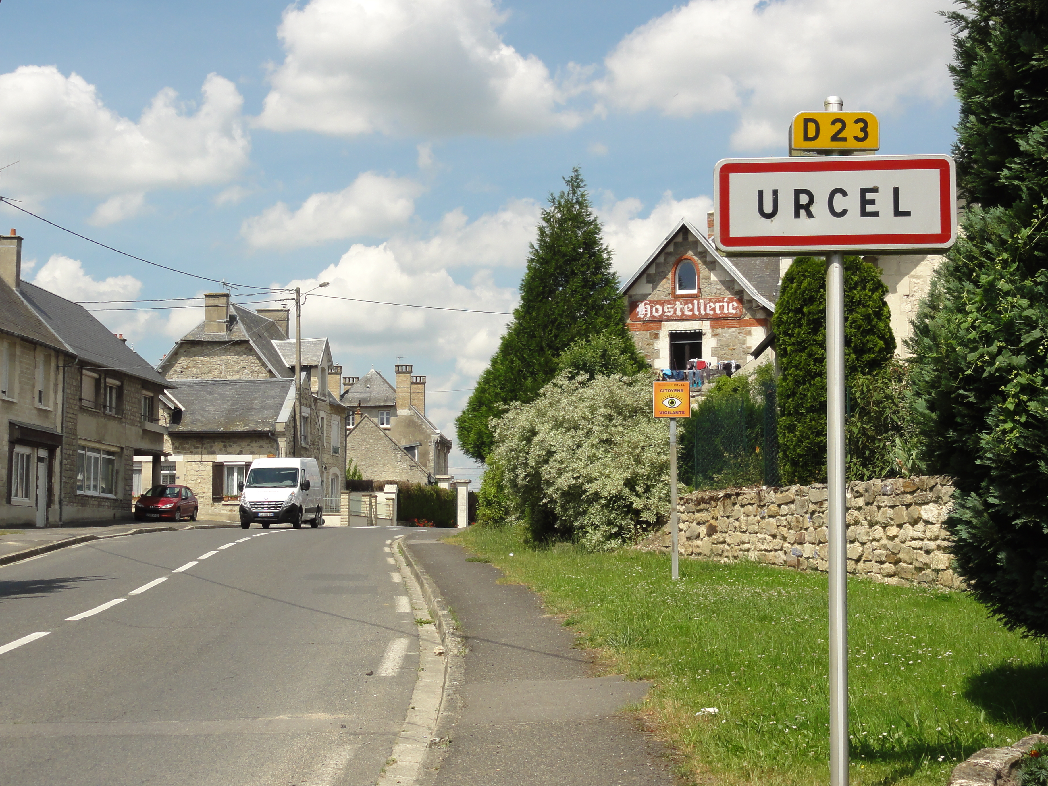 Urcel (Aisne) city limit sign